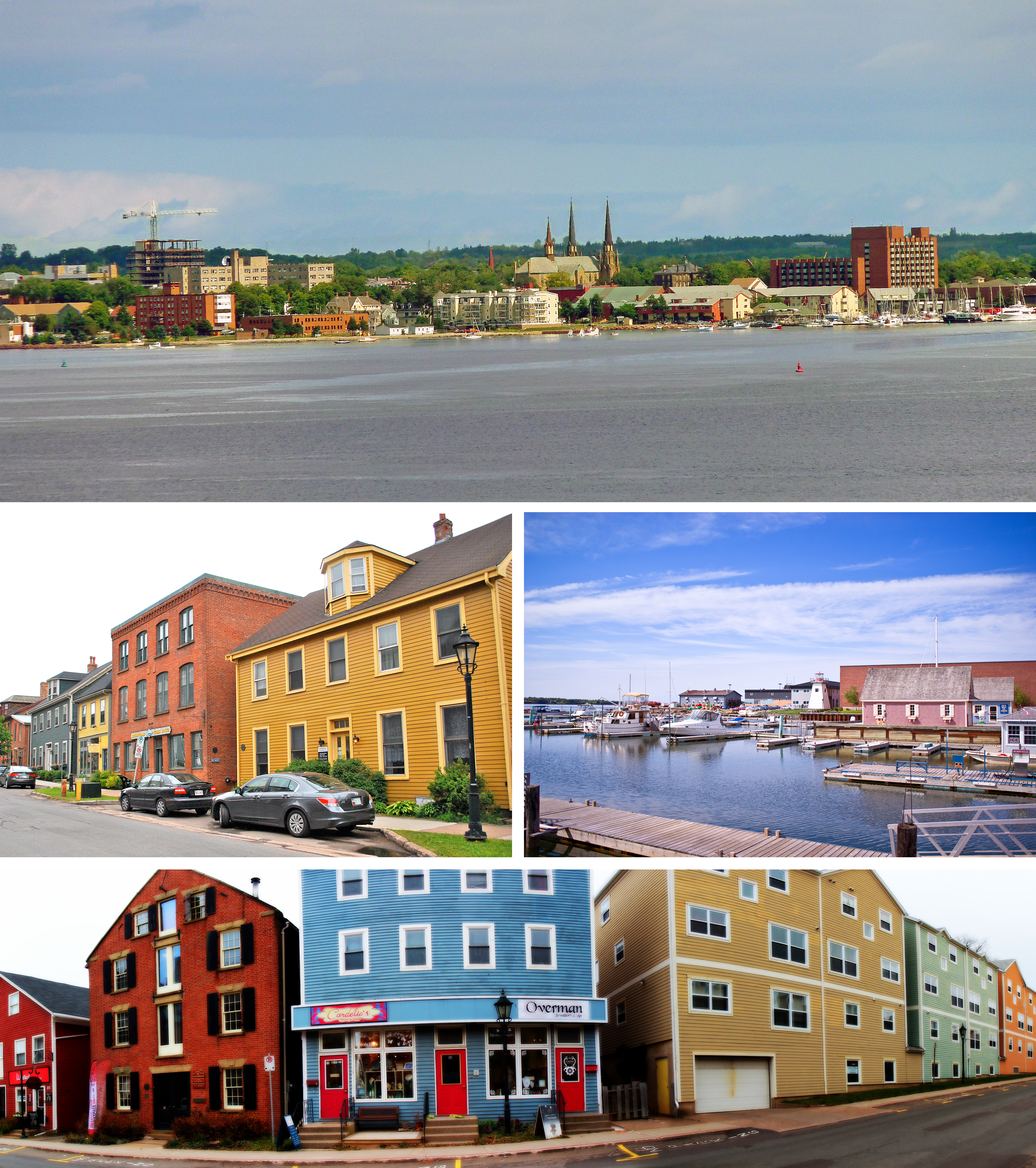 This is a montage of Charlottetown for 2020